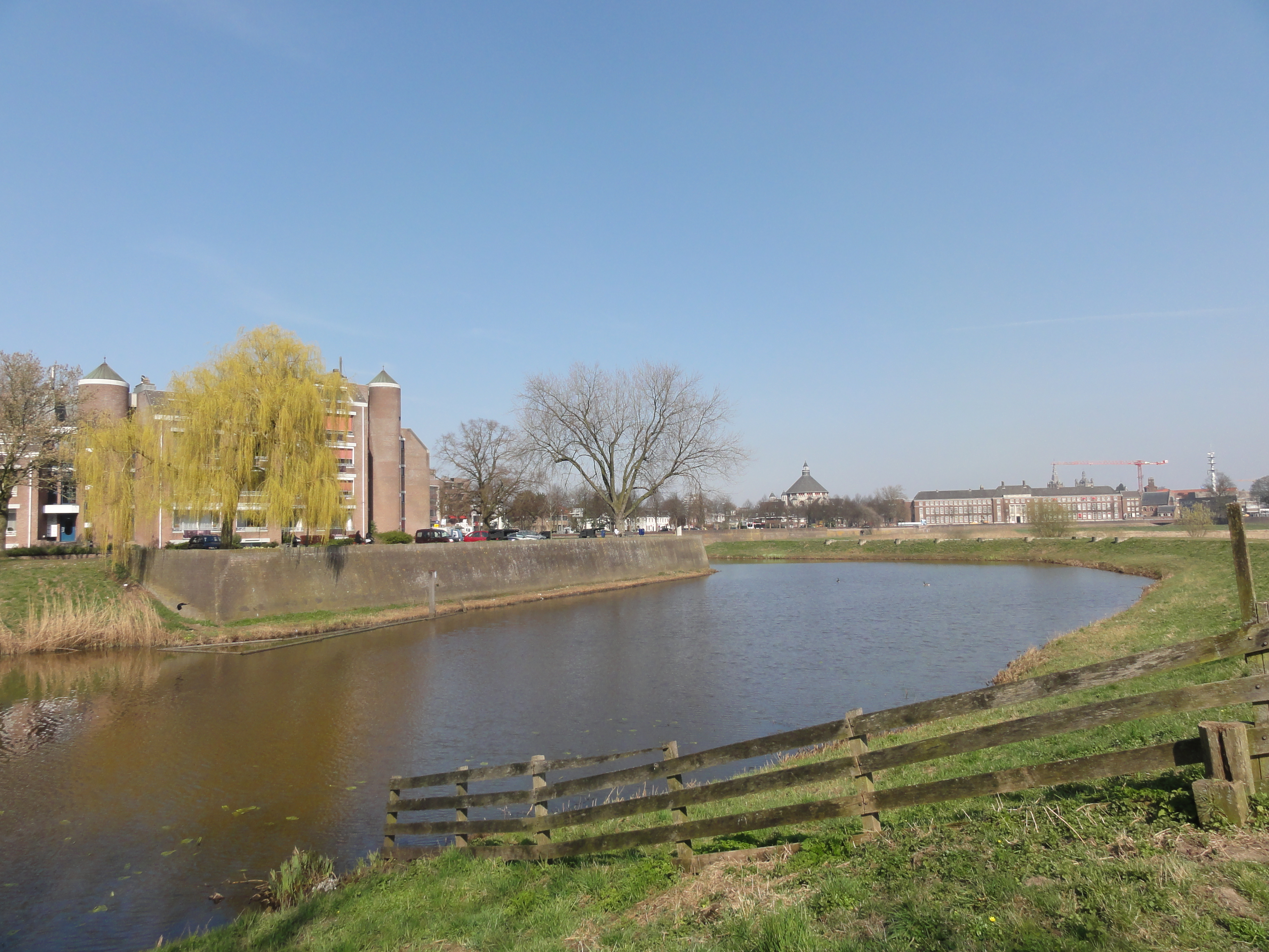 Near Bastion Vught 's-Hertogenbosch